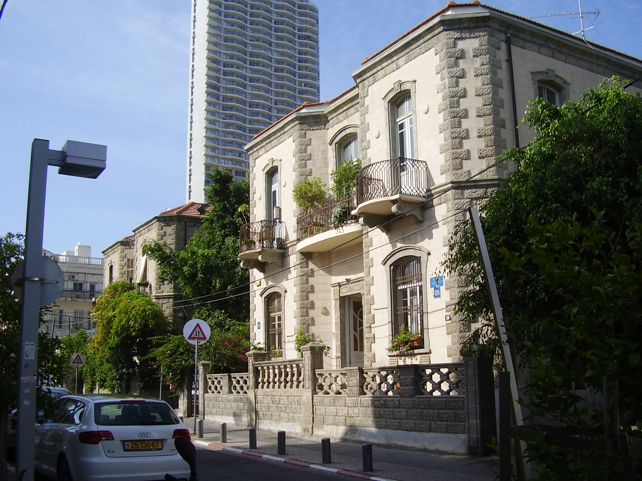 twin houses in neve-zedek, tel-aviv